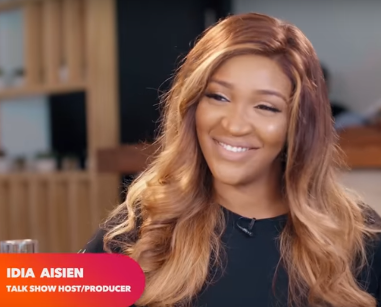 Idia Aisien who is of Nigerian and Cameroonian descent, was born July 4, 1991 in Nigeria, to Champagne, Wine and Spirits Magnate, Dr. Joe Aisien, and Jeweler and philanthropist, Emmanuella Aisien